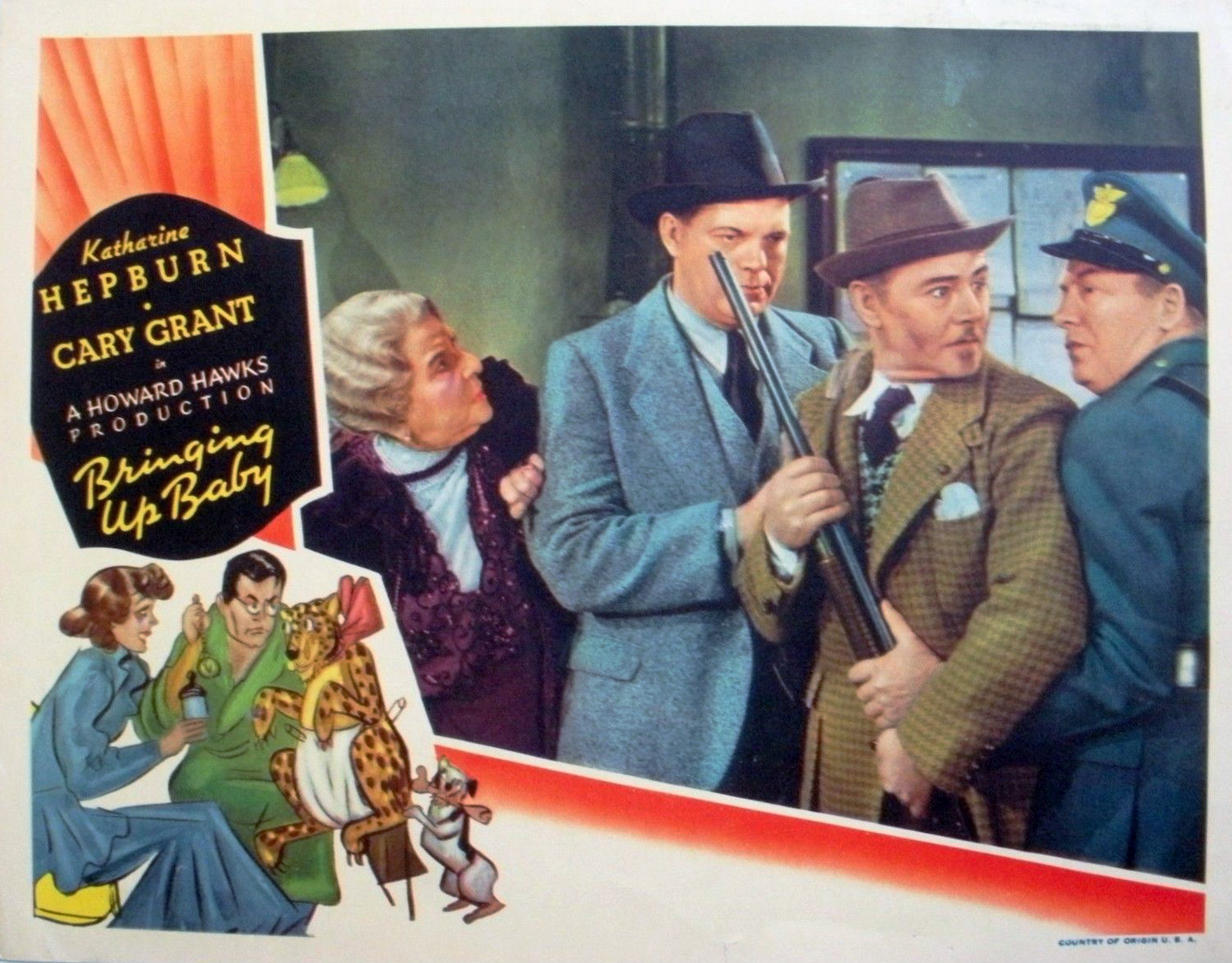 Lobby card from the American comedy film Bringing Up Baby (1938).